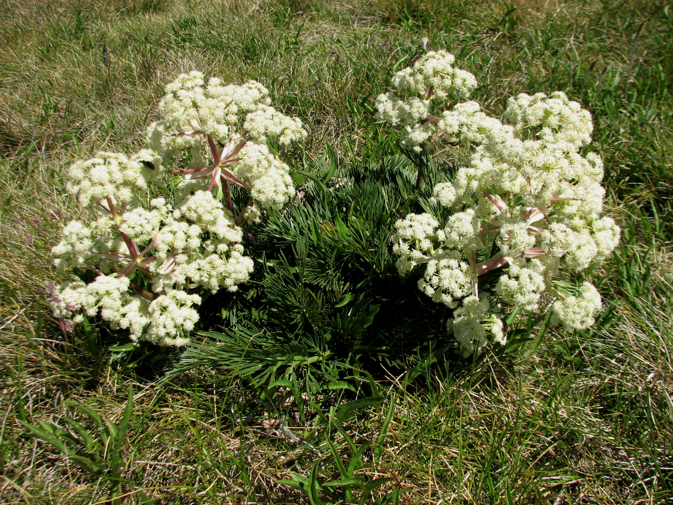 Aciphylla glacialis, Mount Hotham, Victoria, Australia